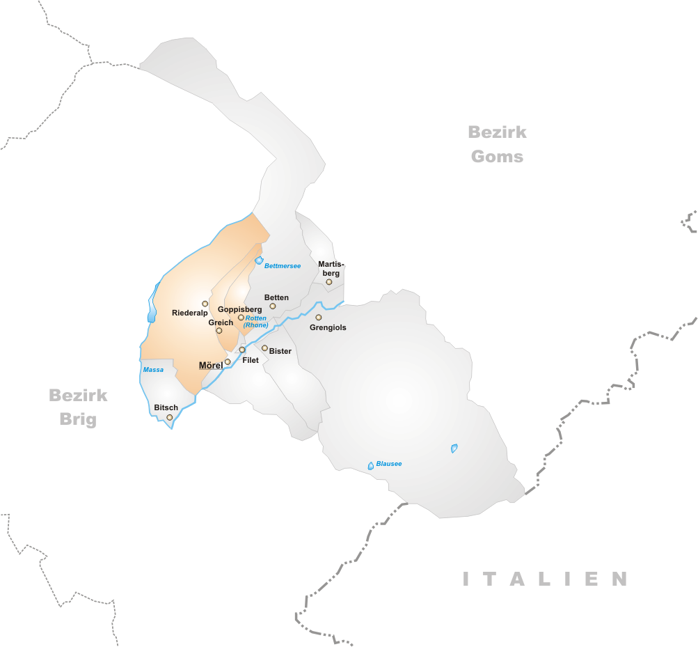 Municipalities of District Östlich_Raron until 10.2003